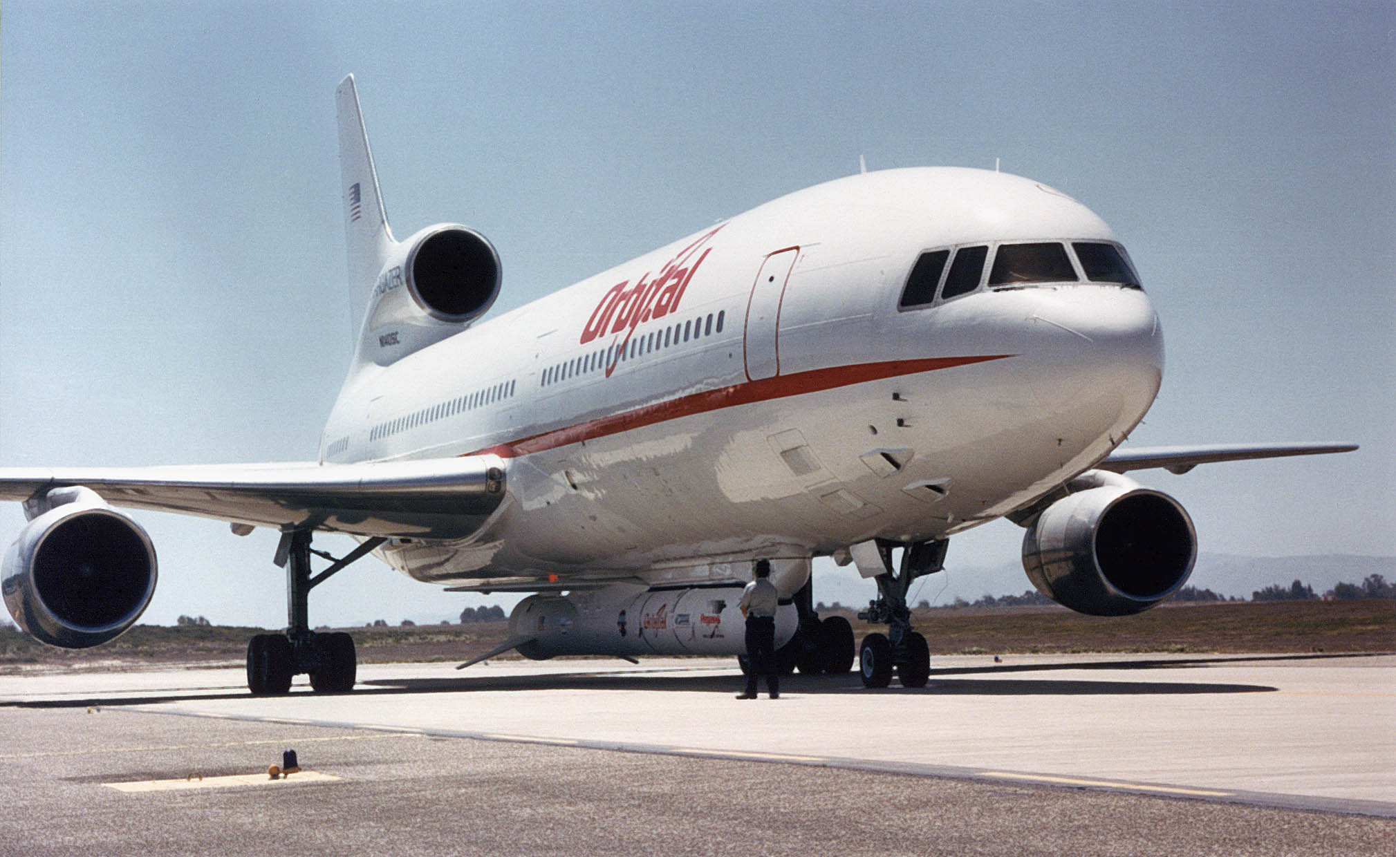 Lockheed L-1011 carrier aircraft. Shown with Pegasus Rocket